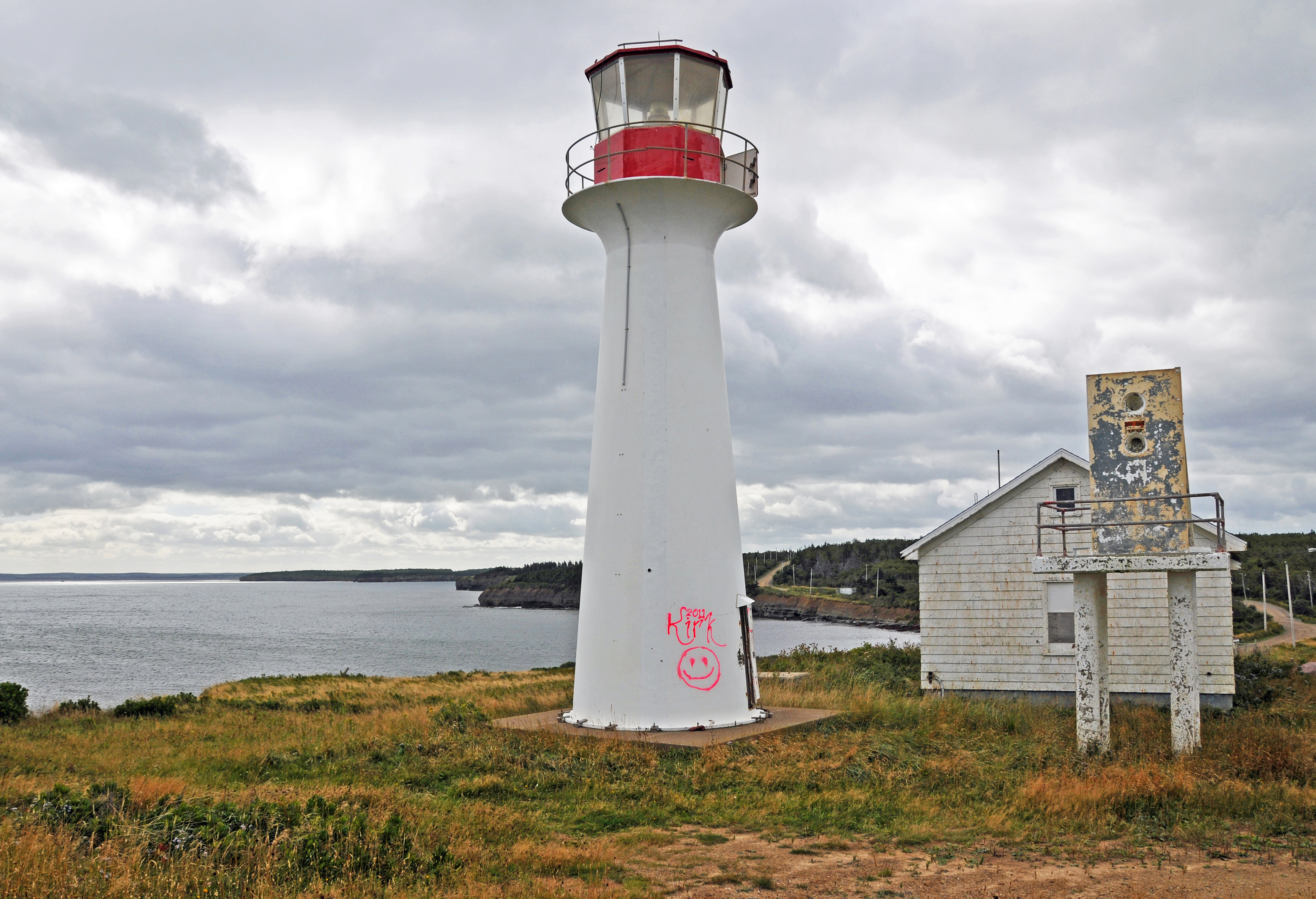 PLEASE, no multi invitations, glitters or self promotion in your comments. My photos are FREE for anyone to use, just give me credit and it would be nice if you let me know, thanks - NONE OF MY PICTURES ARE HDR. On Tuesday, April 26, 2011, Police responded to a report of a Break and Enter and Theft discovered at the Lighthouse and adjacent building located at the end of Point Aconi Road, Point Aconi. It appears that the culprits removed two large aluminum outer doors from the adjacent building and once inside the building did damage to the wiring complex which supported the lighthouse. The culprits removed a large amount of copper wiring and also took the two outer doors when they left the area. The lighthouse was also entered and damage was also done to the electrical wiring in the building. Nav Canada was notified and will have staff assess the damage to both buildings and operational functions. The investigation is ongoing and anyone with information about this incident, or who witnessed suspicious activity or persons in the area, is asked to contact the Cape Breton Regional Police Service at 563-5151 or Crime Stoppers at 562-8477 and online at .